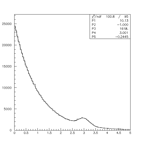 Paw fit to a Gaussian of mean 0.25 and width 1 with 20000 entries sitting on an exponential distribution with mean 1 and 500000 entries. Flying fish 23:16, 23 March 2006 (UTC)